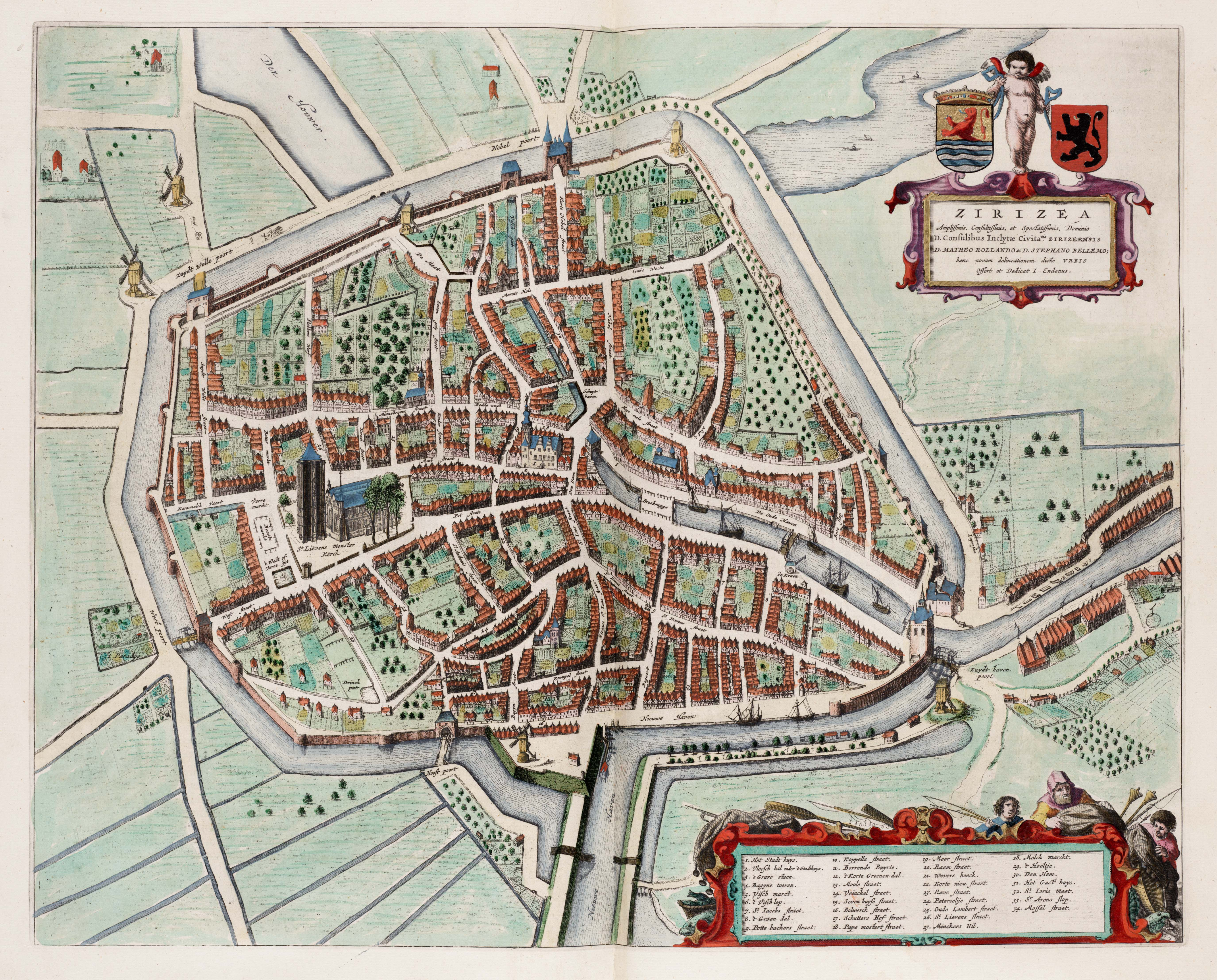 townmap of Zierikzee